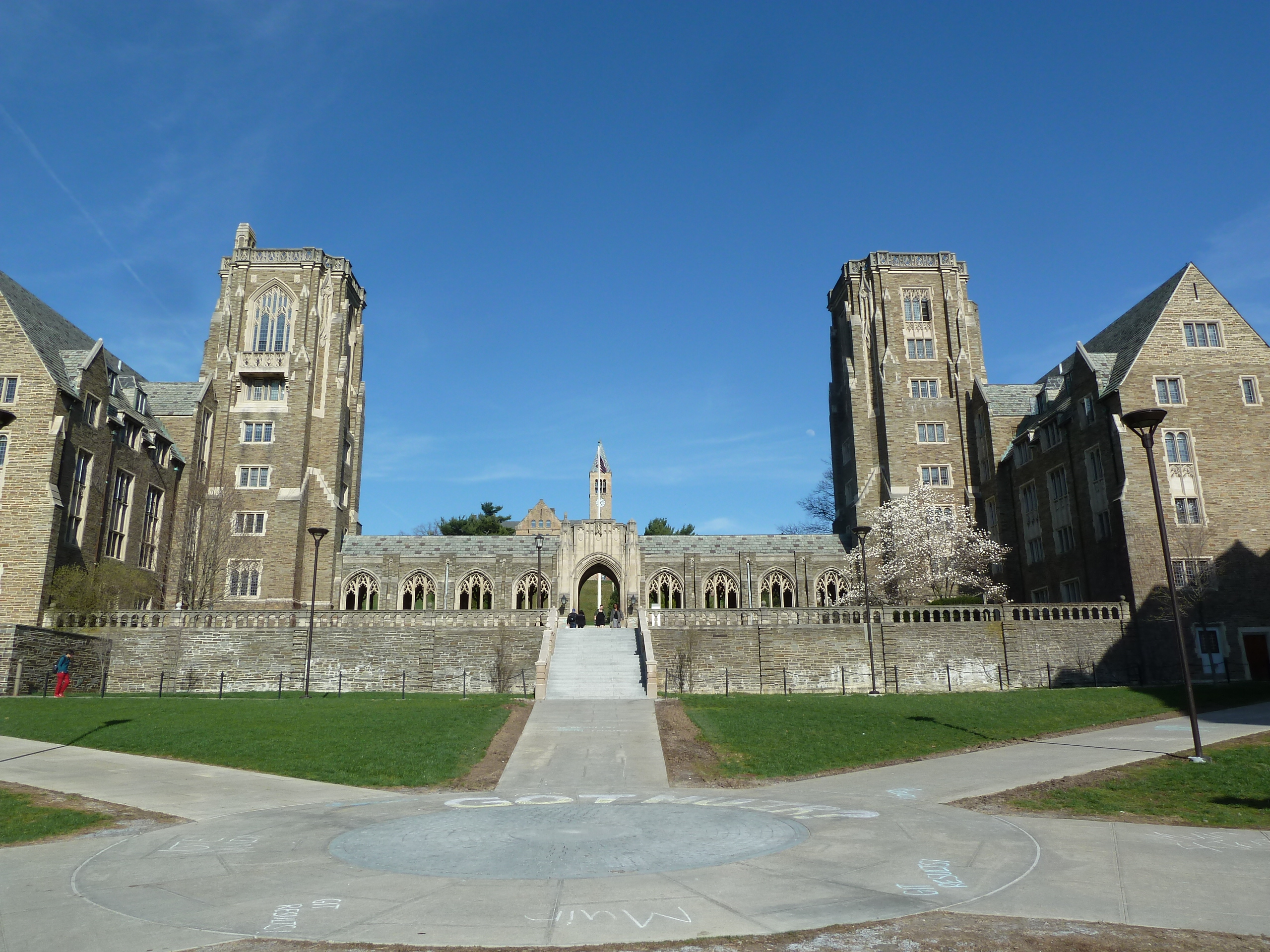 Face of Cornell University war memorial, with twin Army and Navy tower